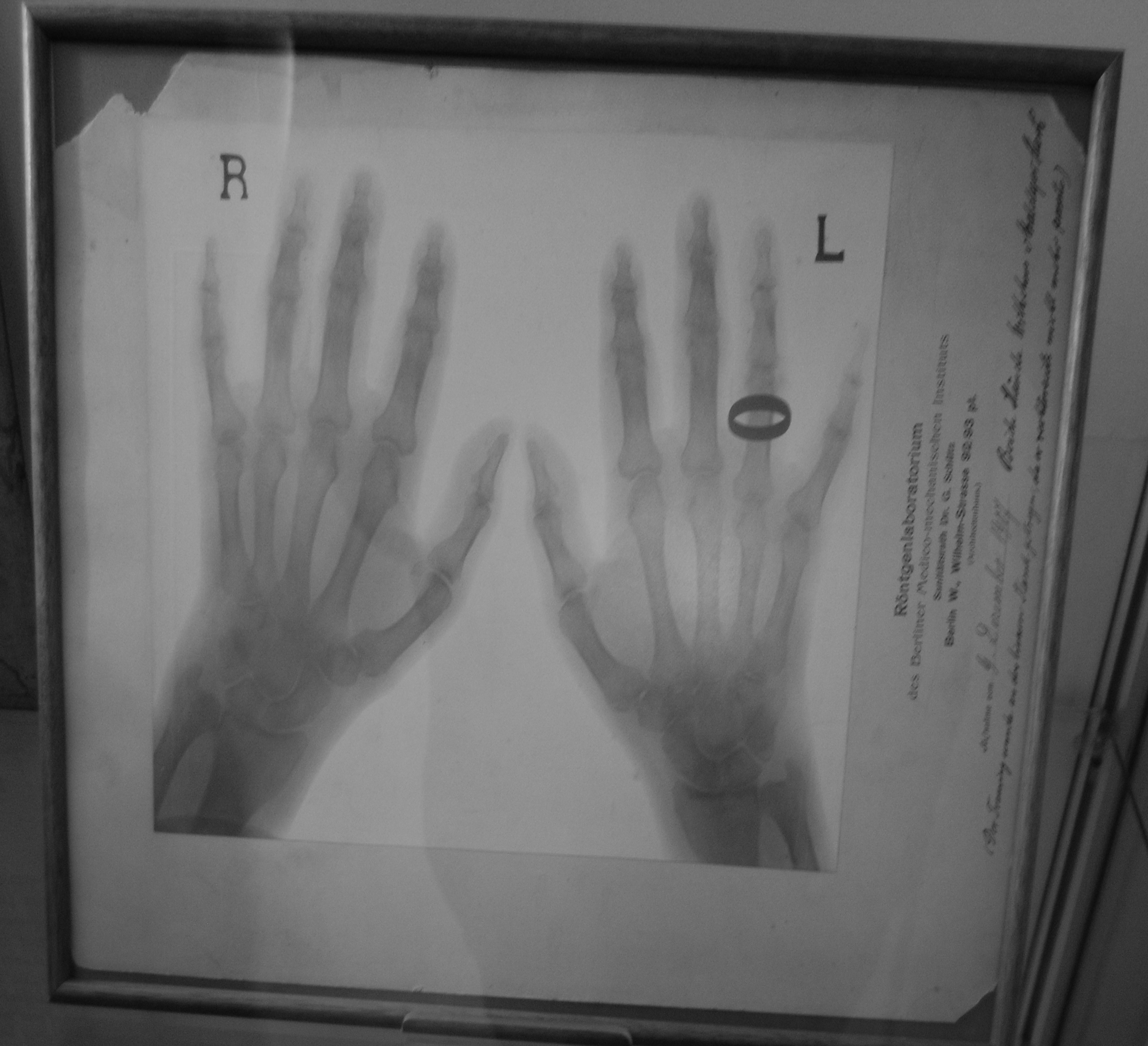 Hands of Wilhelm von Waldeyer-Hartz (1836-1921). Picture displayed in the Institute of Anatomy in Berlin (Charité Universitätsmedizin Berlin). The hands were not preserved after the IIWW. Only this picture remains. In 1923 Hans Virchow published paper about Waldeyer's hands.